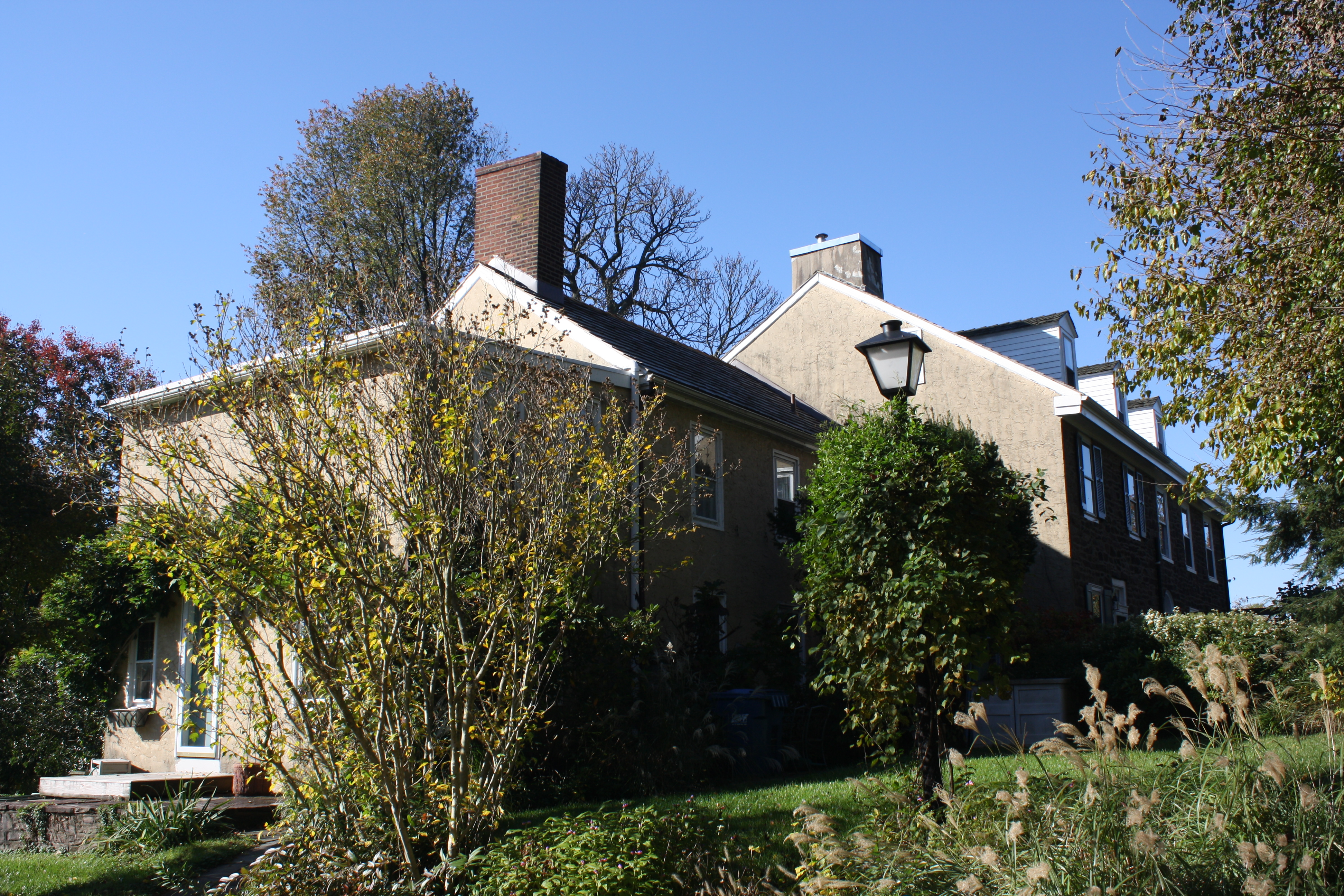 Twining Farm, also known as the David and Elizabeth Twining Farm, is a historic home and farm located at Newtown Township, Bucks County, Pennsylvania. Object location40° 13′ 09″ N, 74° 56′ 22″ W